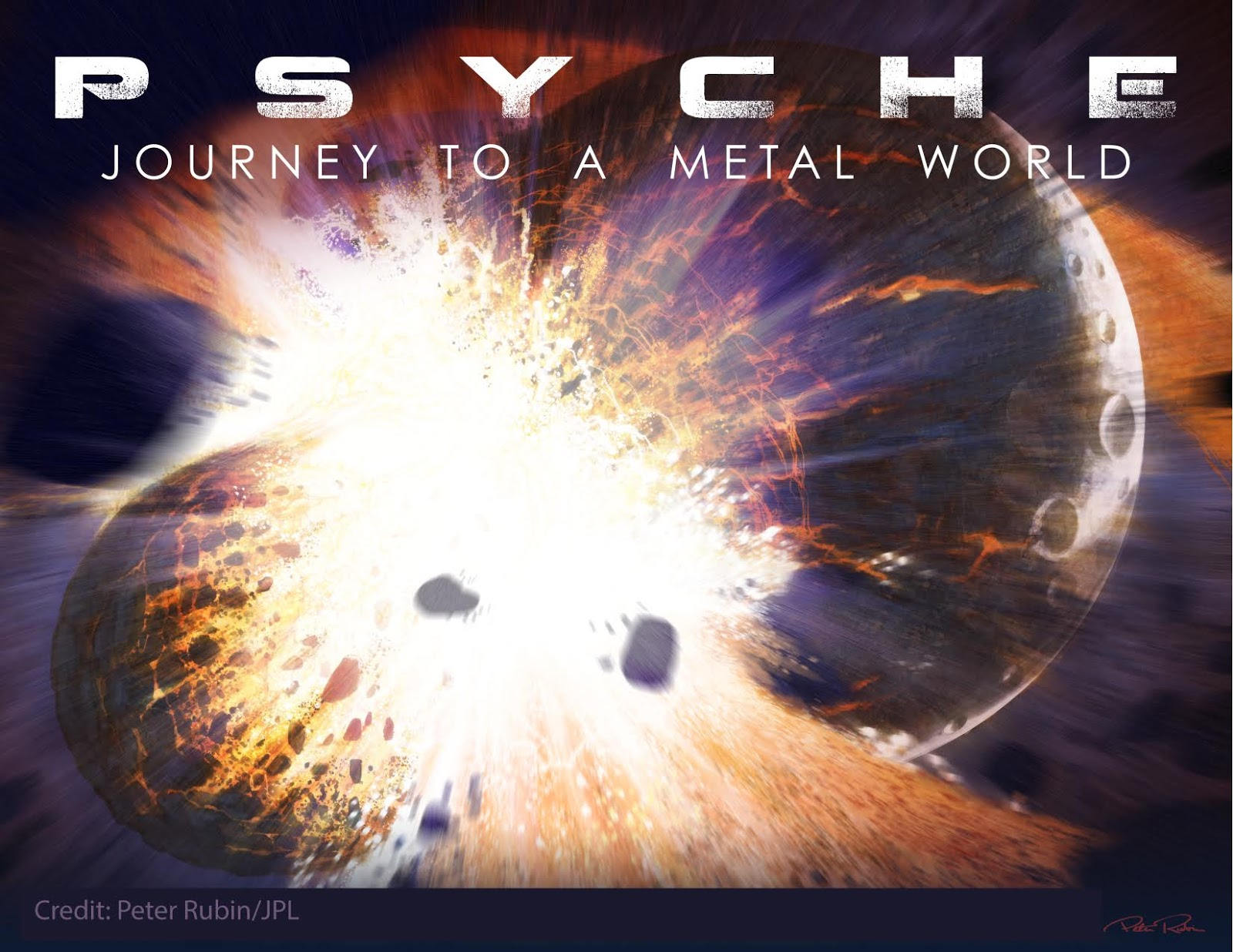 Cover art used by the NASA Psyche team to publicize their spacecraft.